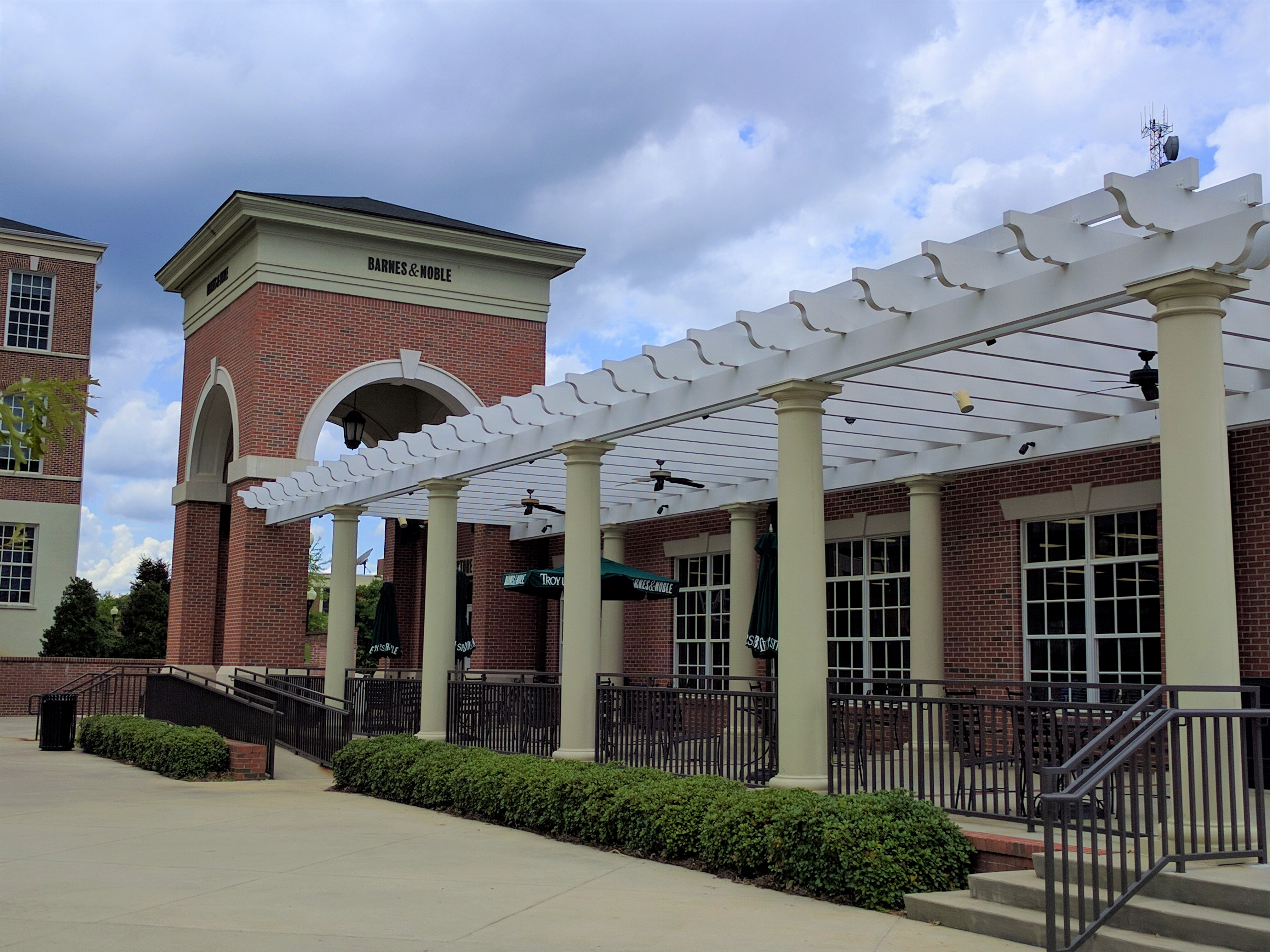 The Barnes & Noble Bookstore/Starbucks lounge area at Troy University.